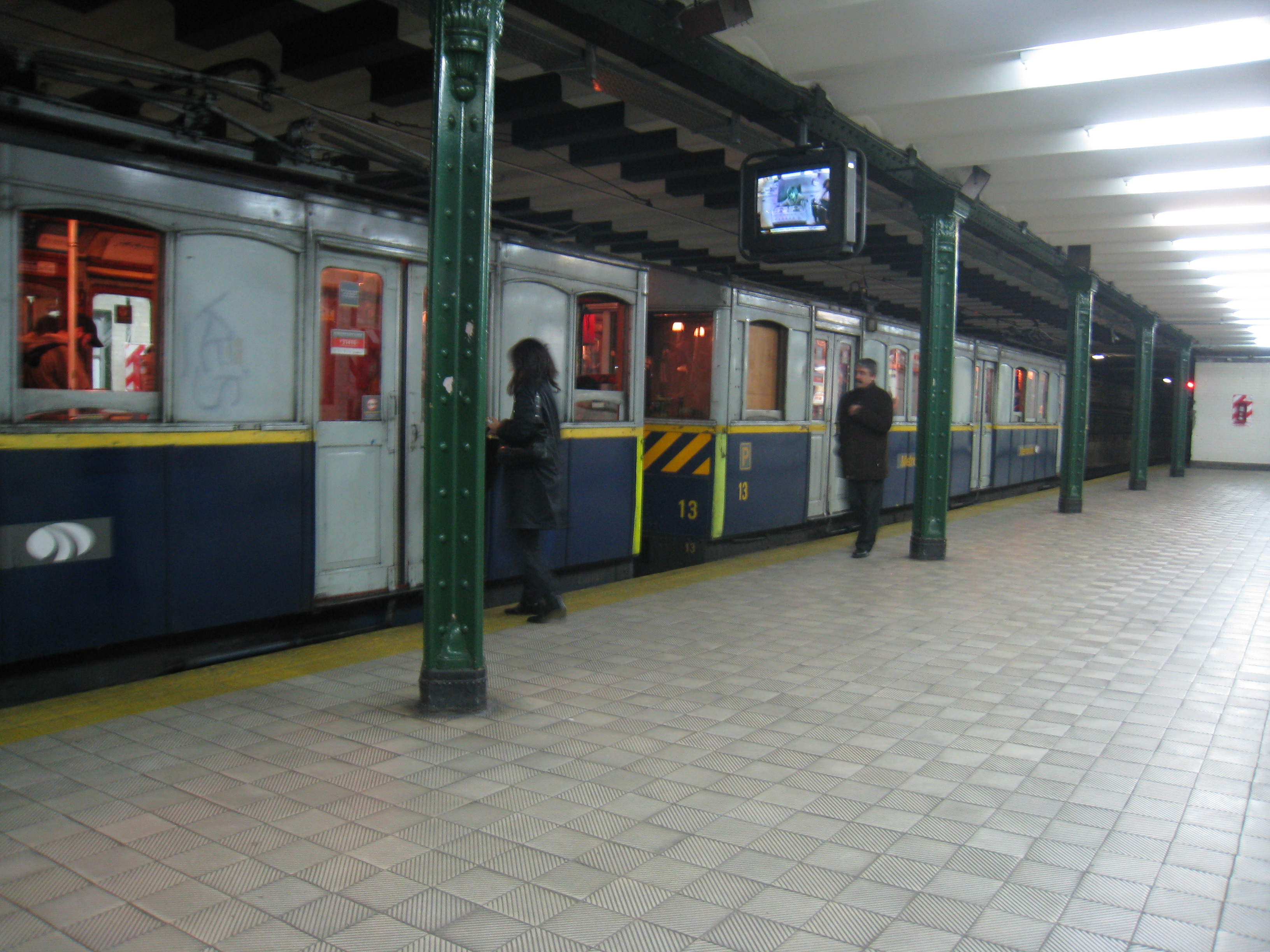 Piedras underground station, Line A, Buenos Aires